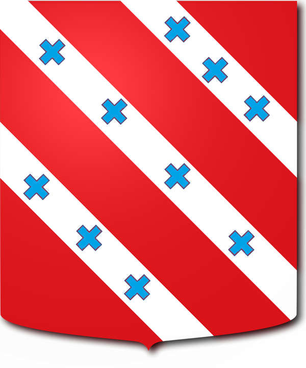 contenti family shield